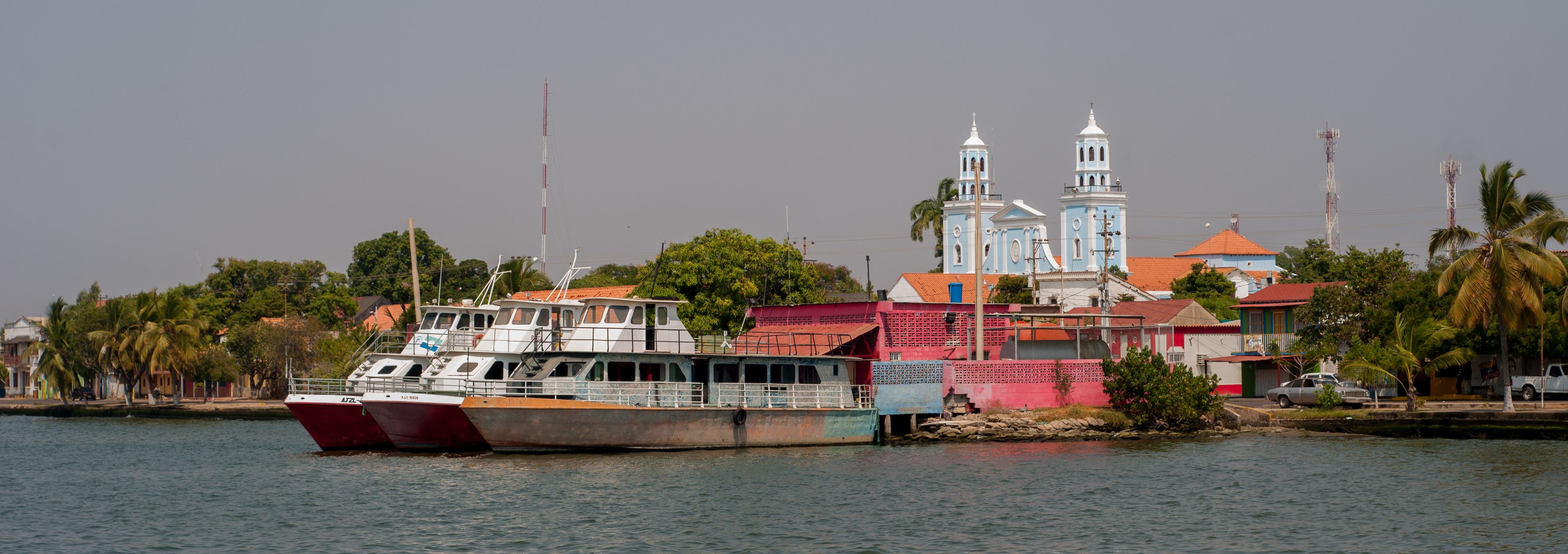 View from the bay in the ports of Altagracia